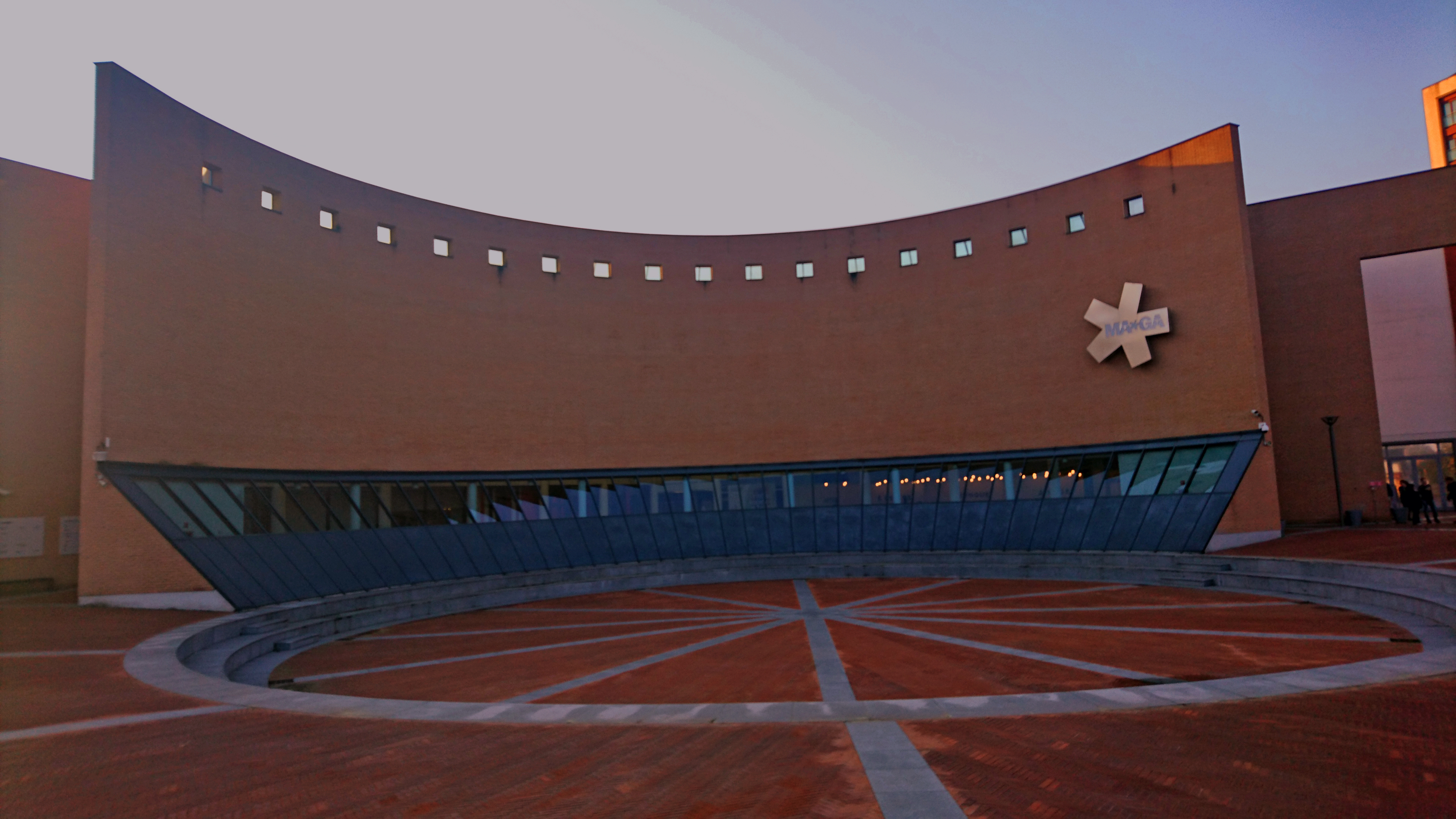 this file contains a picture of the building (MAGA museum of Gallarate). MAGA